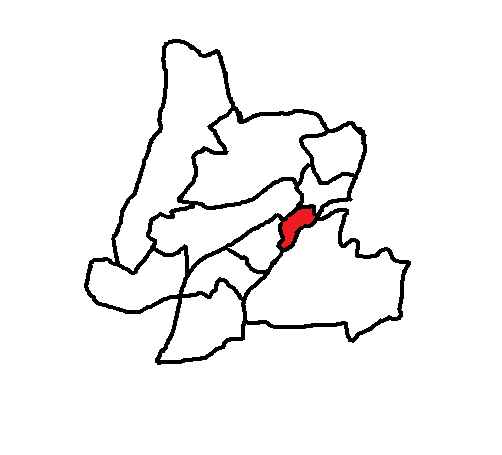 Maps based on images by Earl Warren, from the 2007 elections